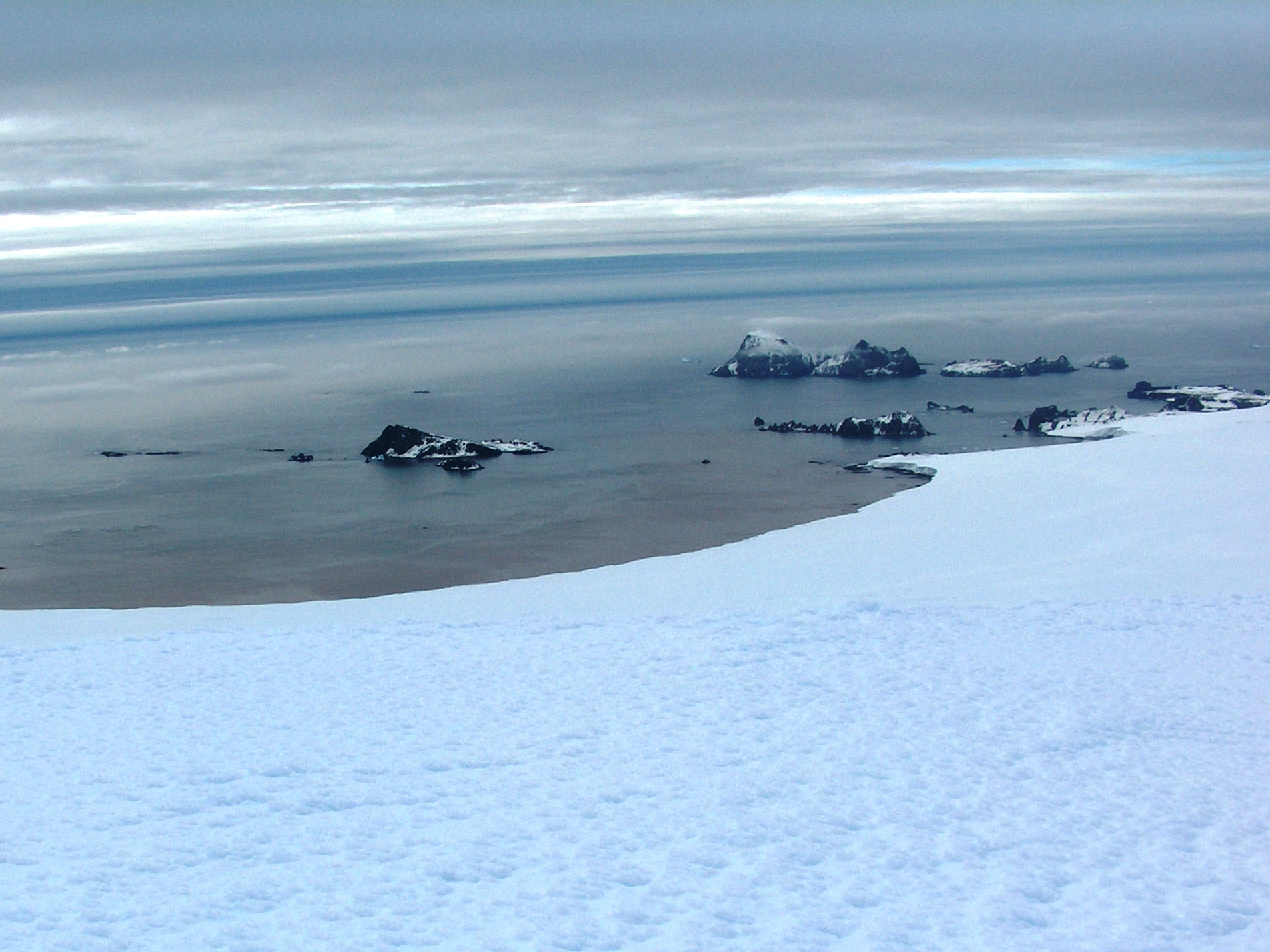 Dunbar Islands, Williams Point and Zed Islands from Miziya Peak, Livingston Island in the South Shetland Islands, Antarctica.